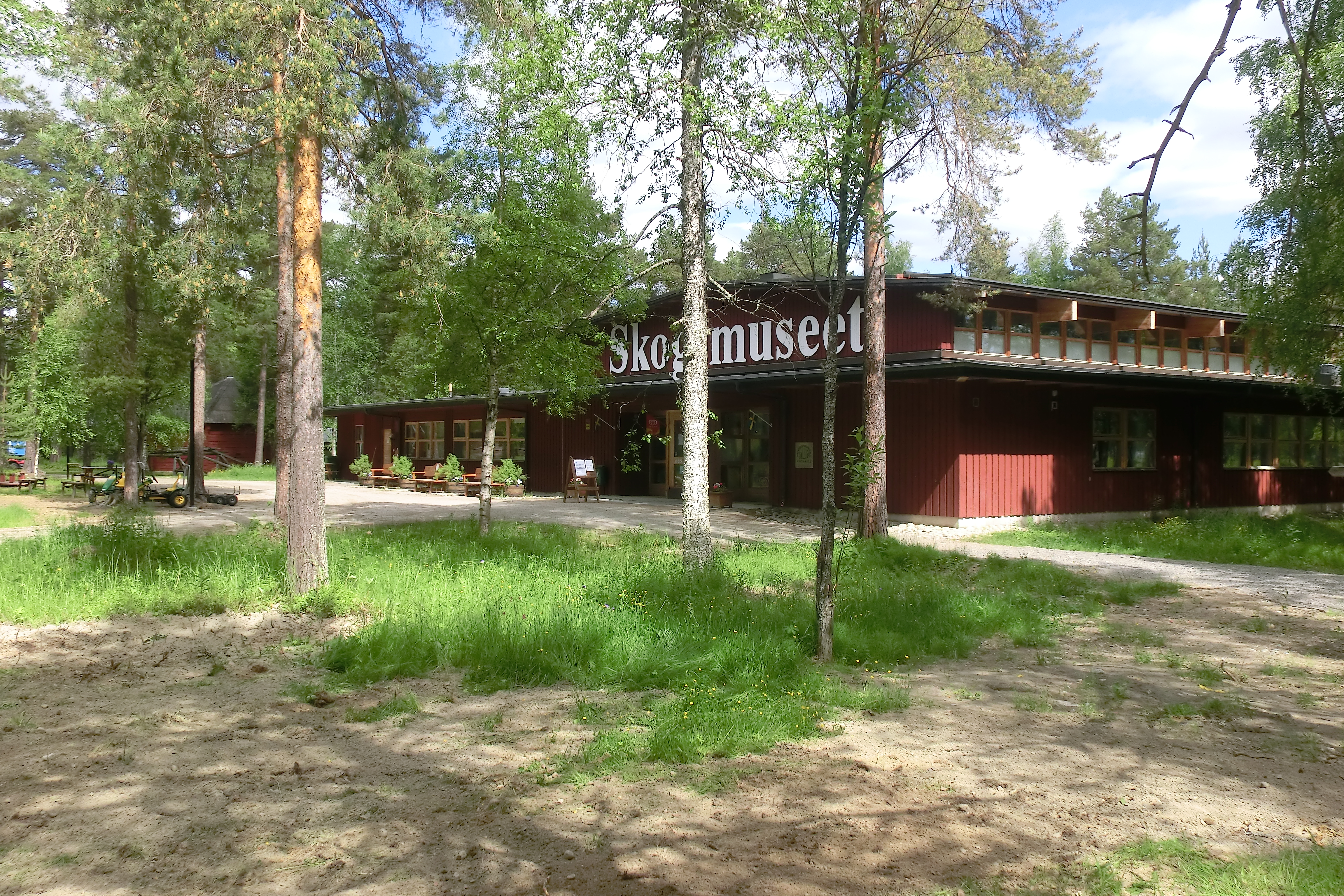 The Forestry Museum in Lycksele, Sweden